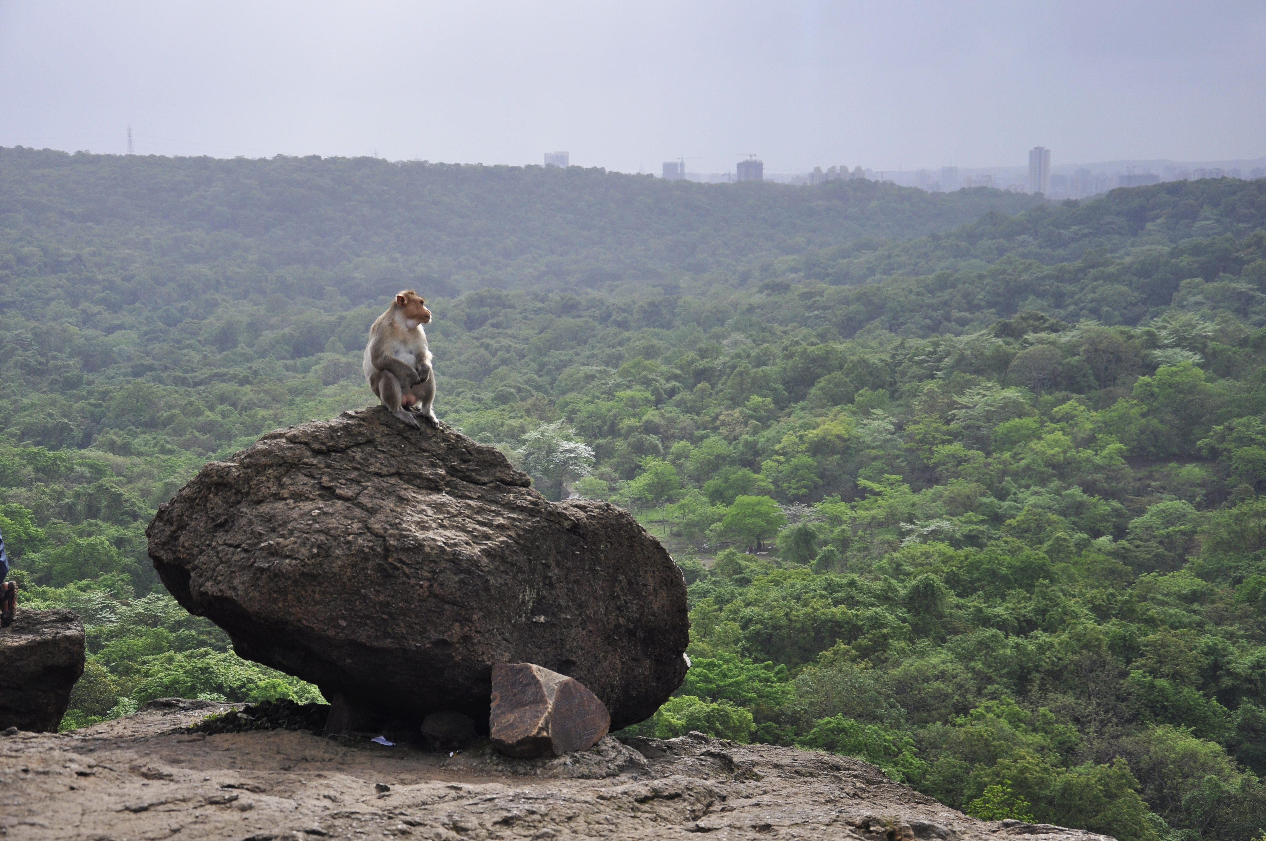 A monkey sitting on top of a boulder at Sanjay Gandhi National Park